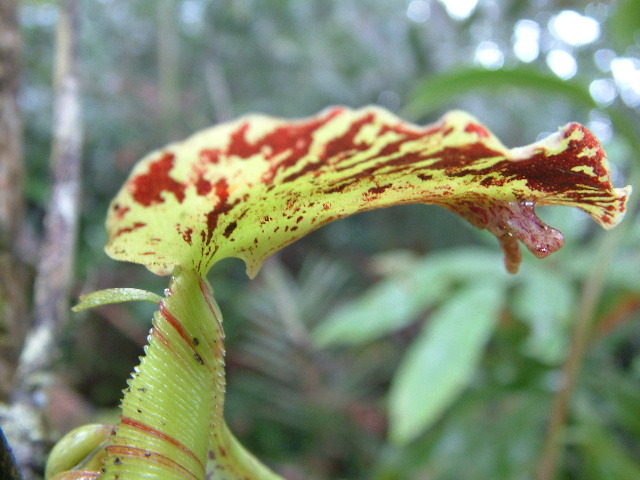 Nepenthes naga from Sumatra